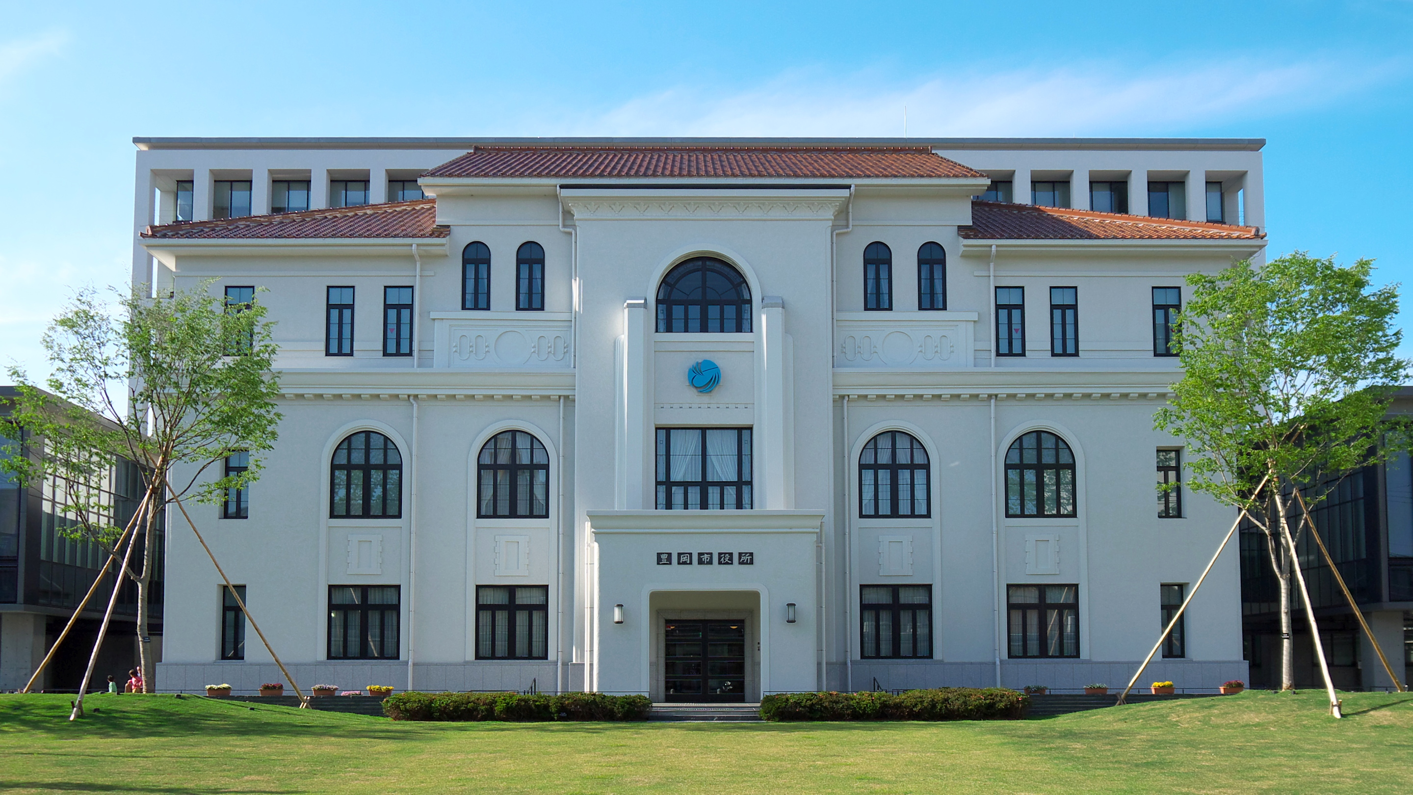 Toyooka city council hall (near) and city office main building (back)